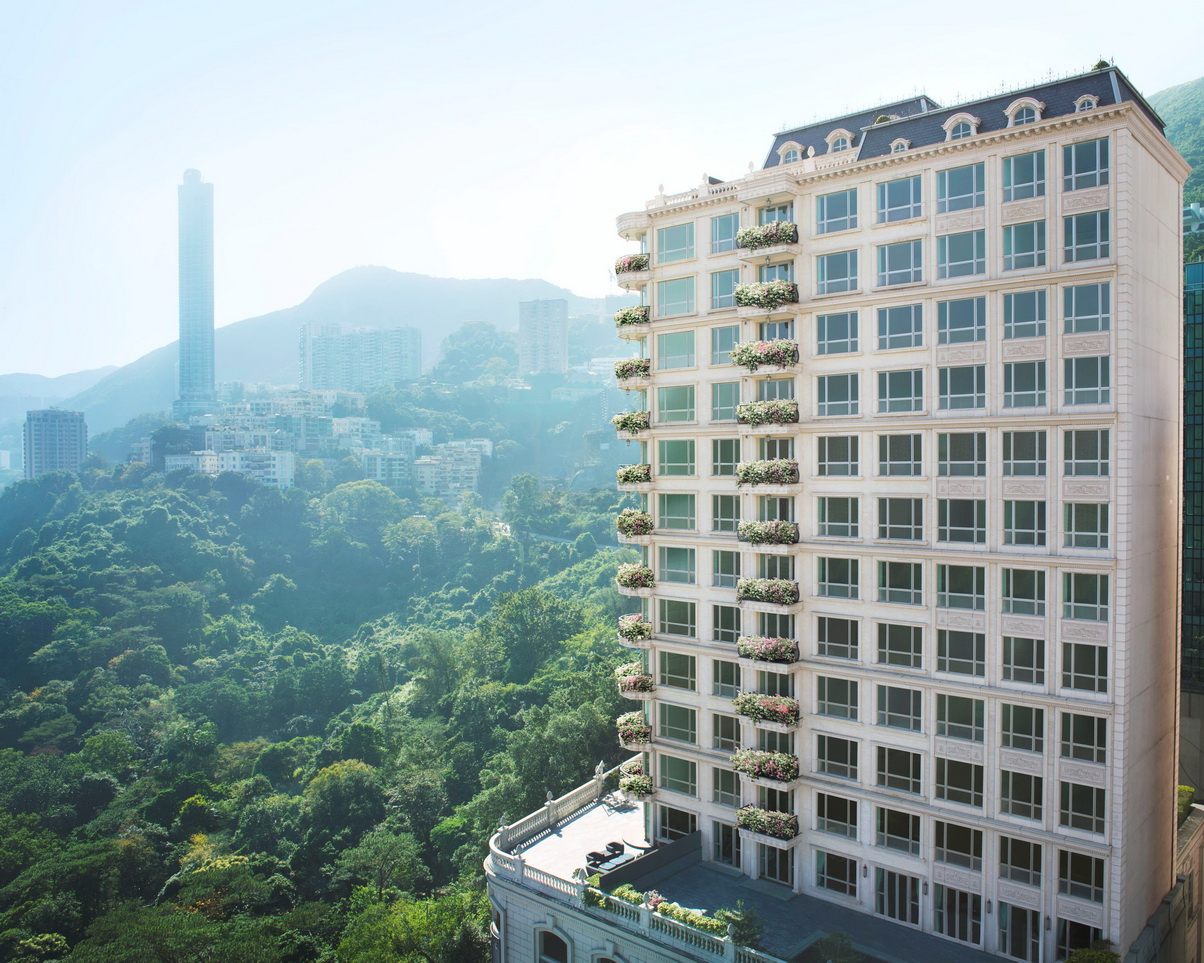 Chantilly 肇輝臺6號